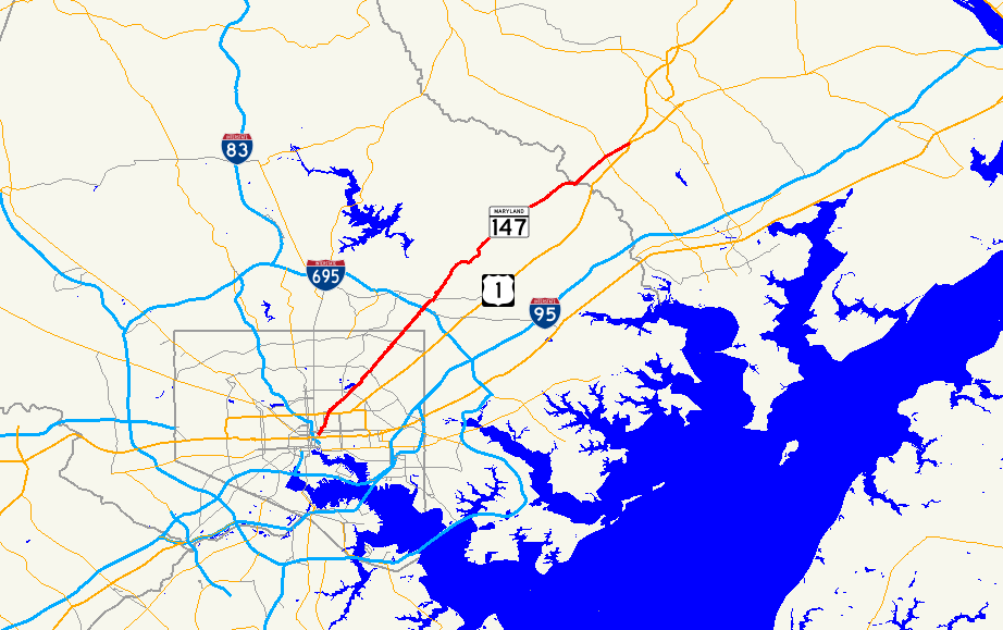 Map of Maryland Route 147